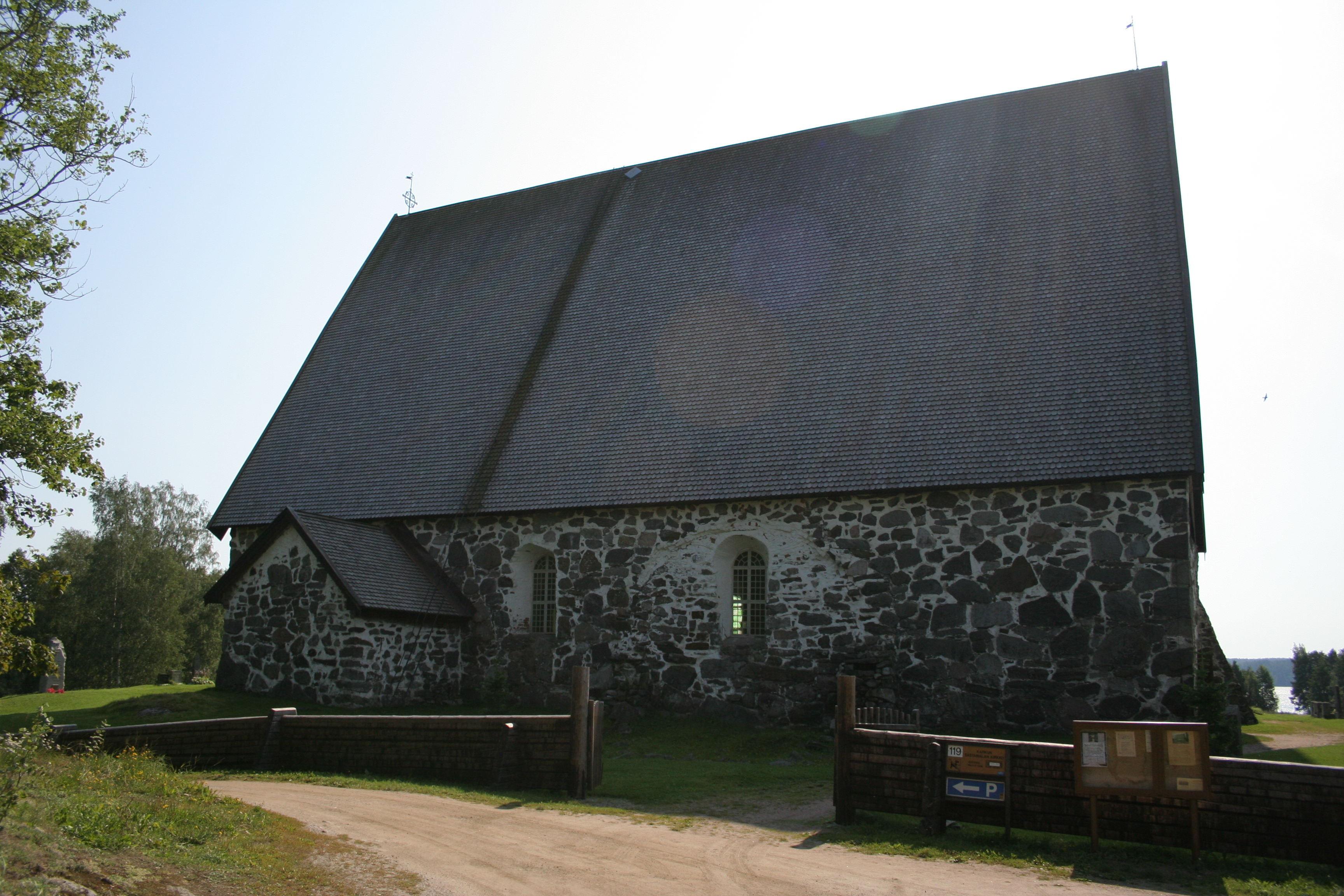 Sastamala Church in Sastamala, Finland